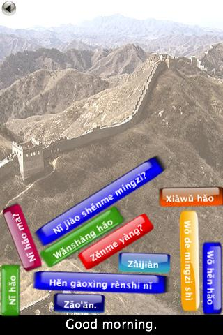 A screenshot of the Chinese Tap educational game on Android for learning Chinese.